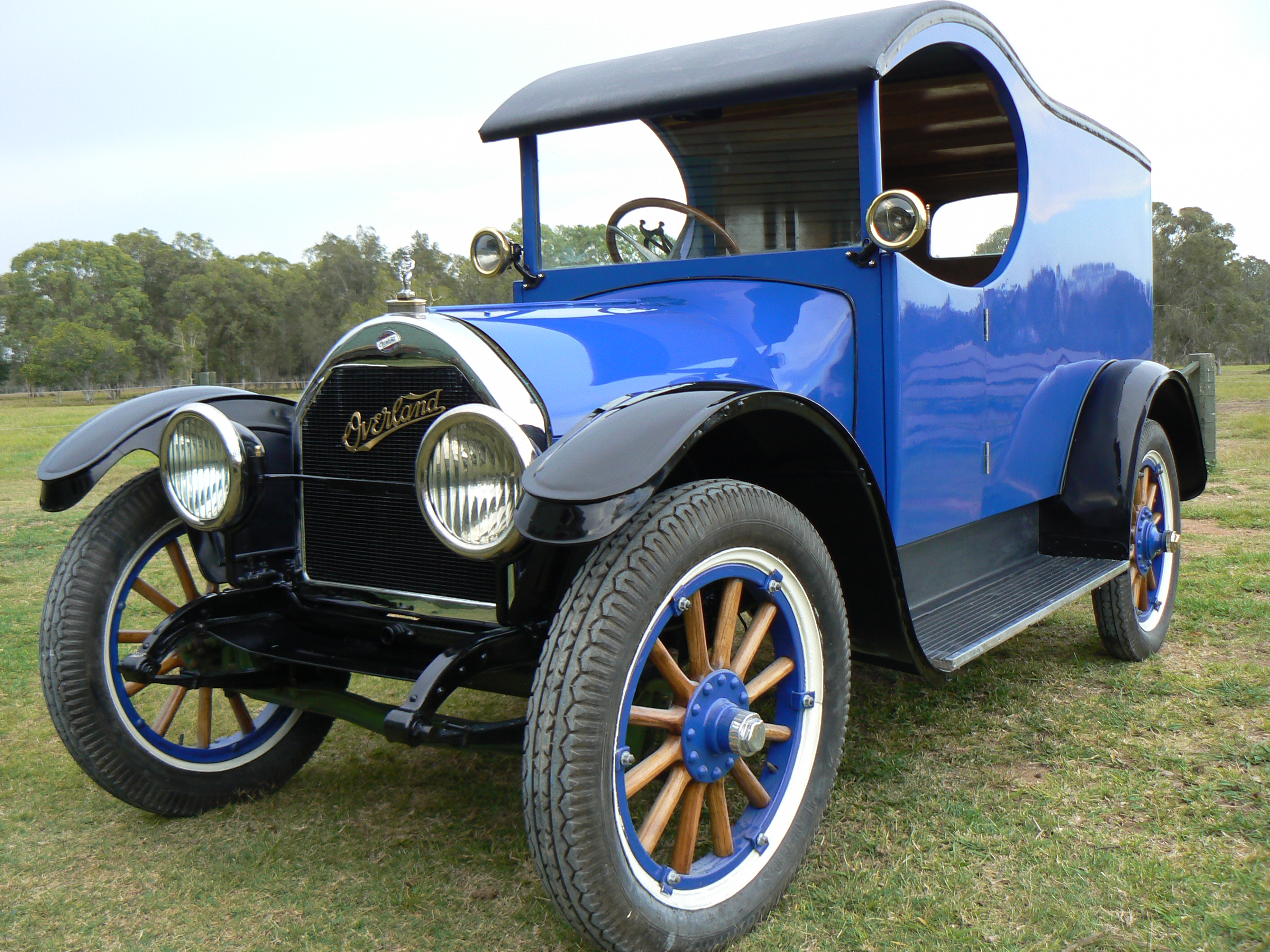 Australian delivered 1915 Willys Overland Model 80 Delivery Van